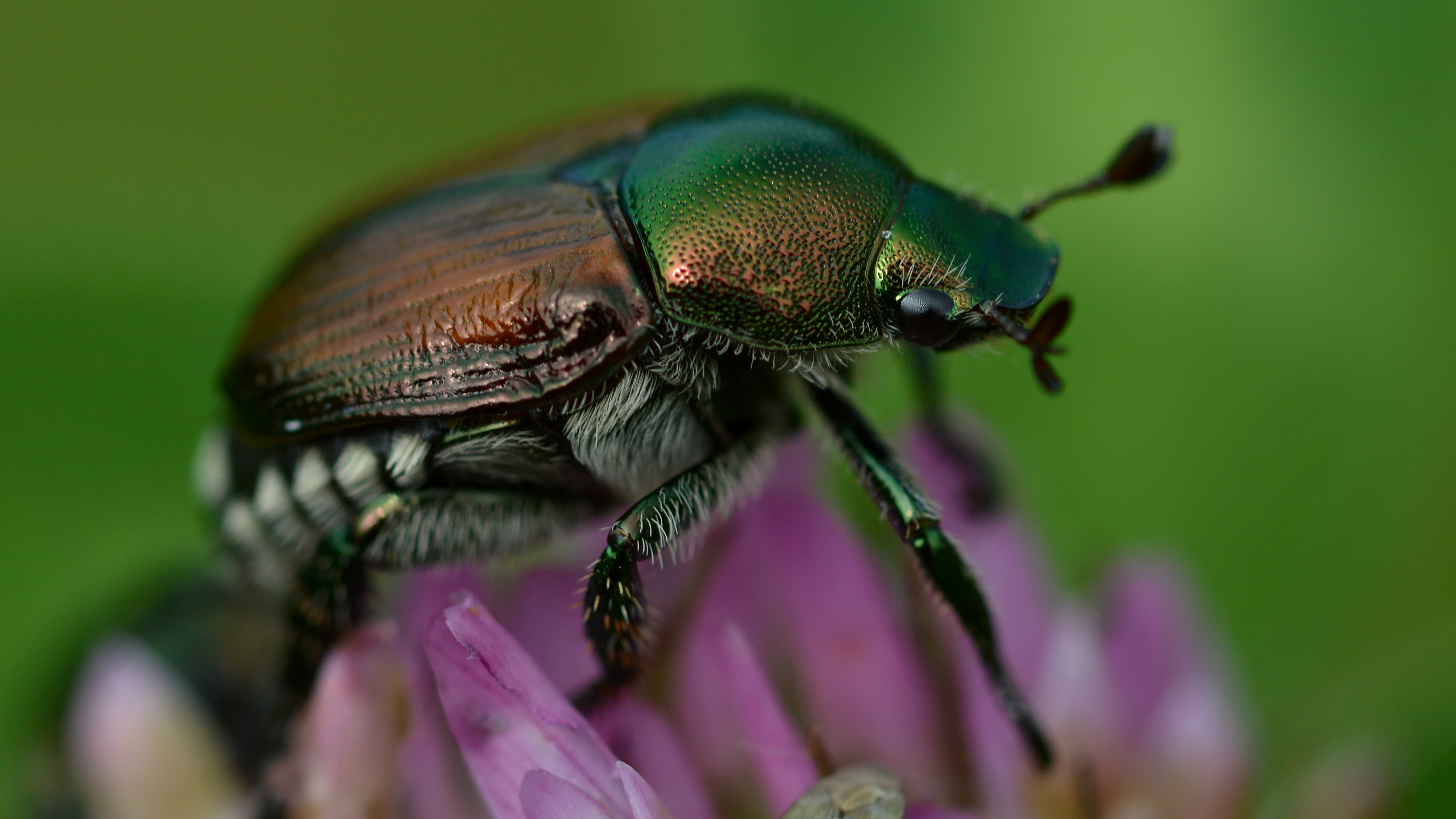 Japanese Beetle (Popillia japonica) at Kilally Meadows in London, Ontario, Canada.